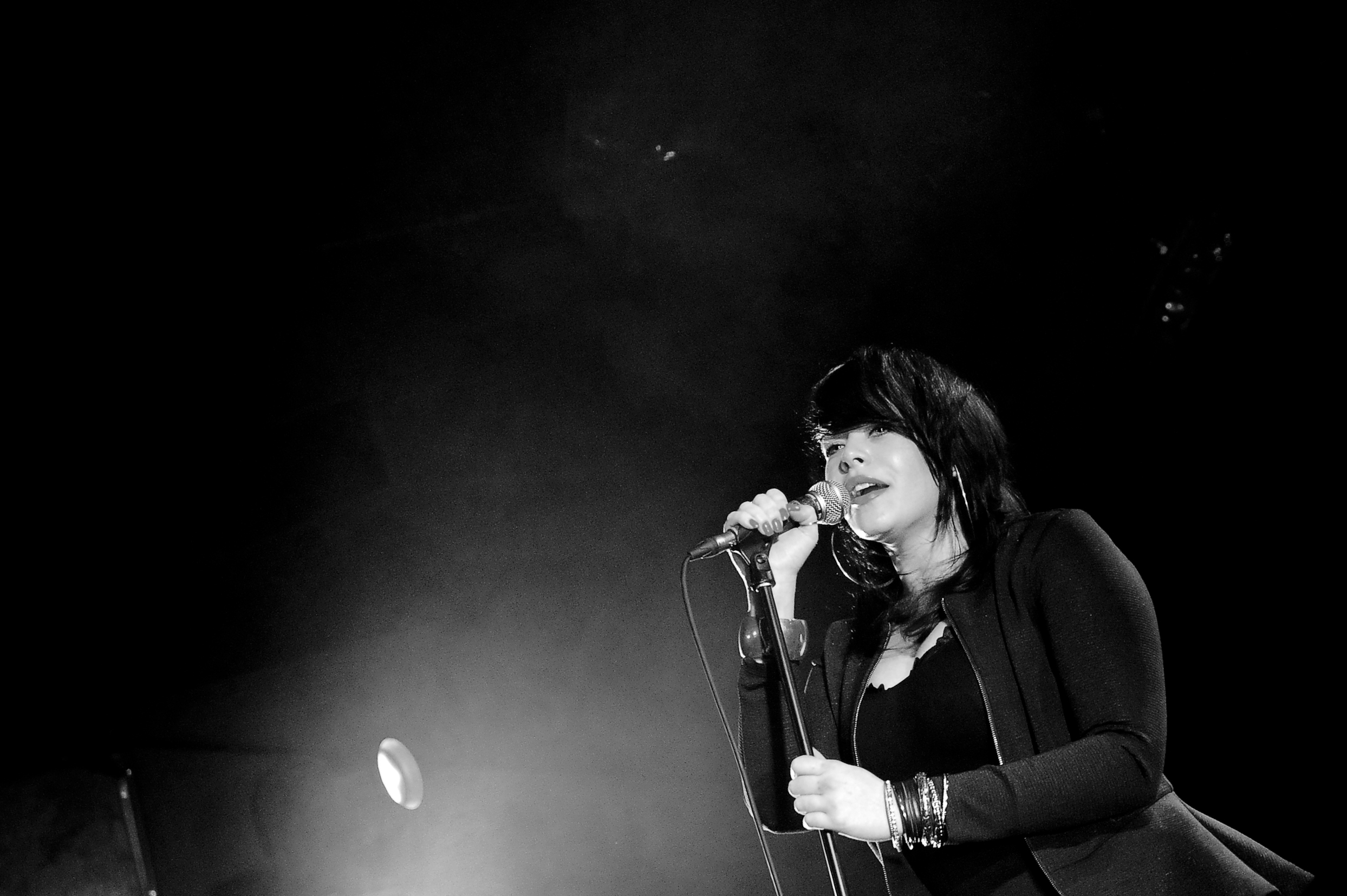 Alex Hepburn on December 5, 2012